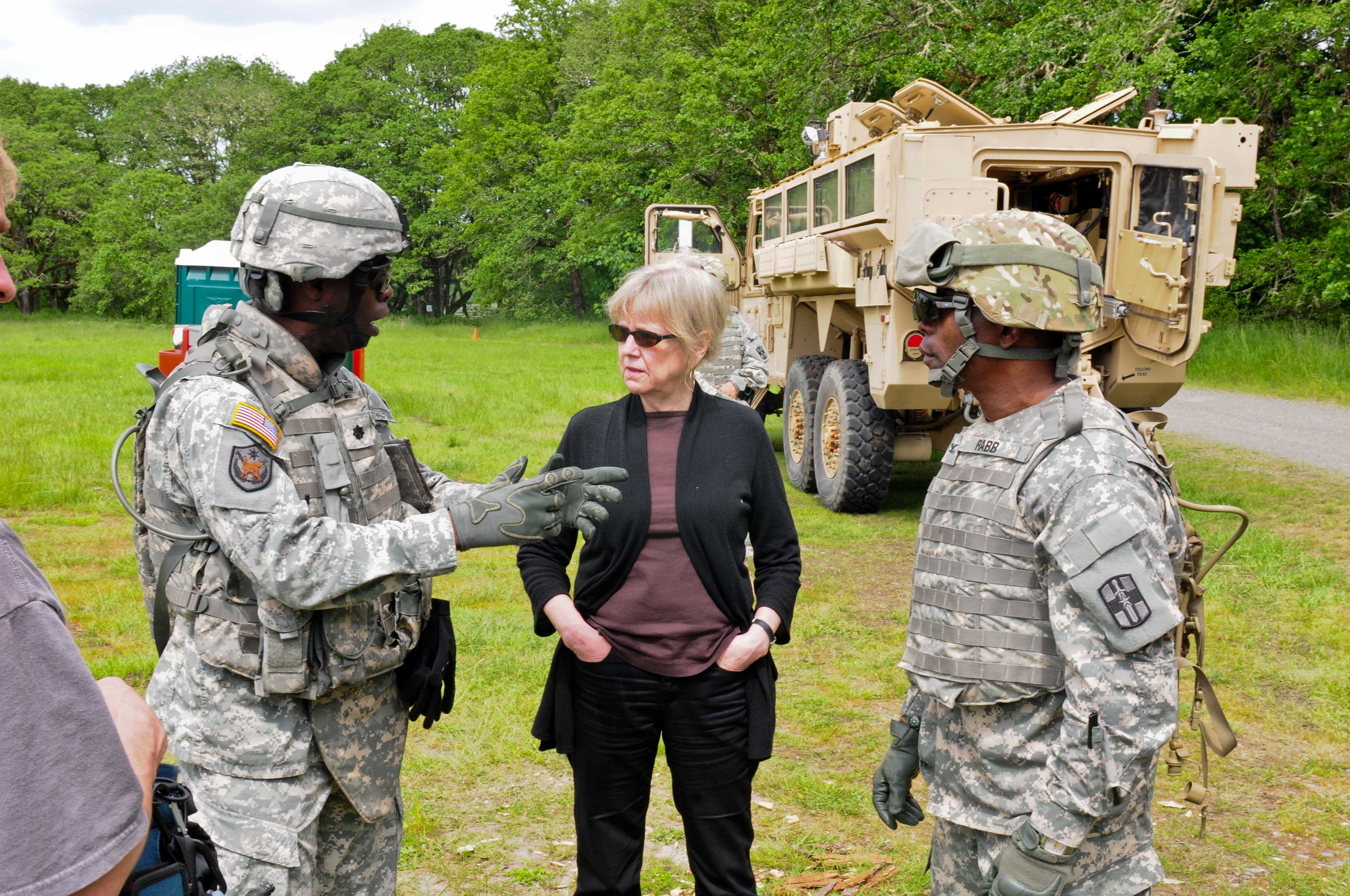 Lt. Col. Ronald Campbell, Commander, 2-357th Infantry, Dr. Jan Haaken, and Col David Rabb, Commander, 113th Combat Stress Control Detachment, discuss pre-deployment training for a documentary on PTSD at Fort Lewis, Wash. The 113th is preparing for deployment and is the subject of a documentary on PTSD. (photo by Maj. Matt Lawrence, 807th MDSC Public Affairs)